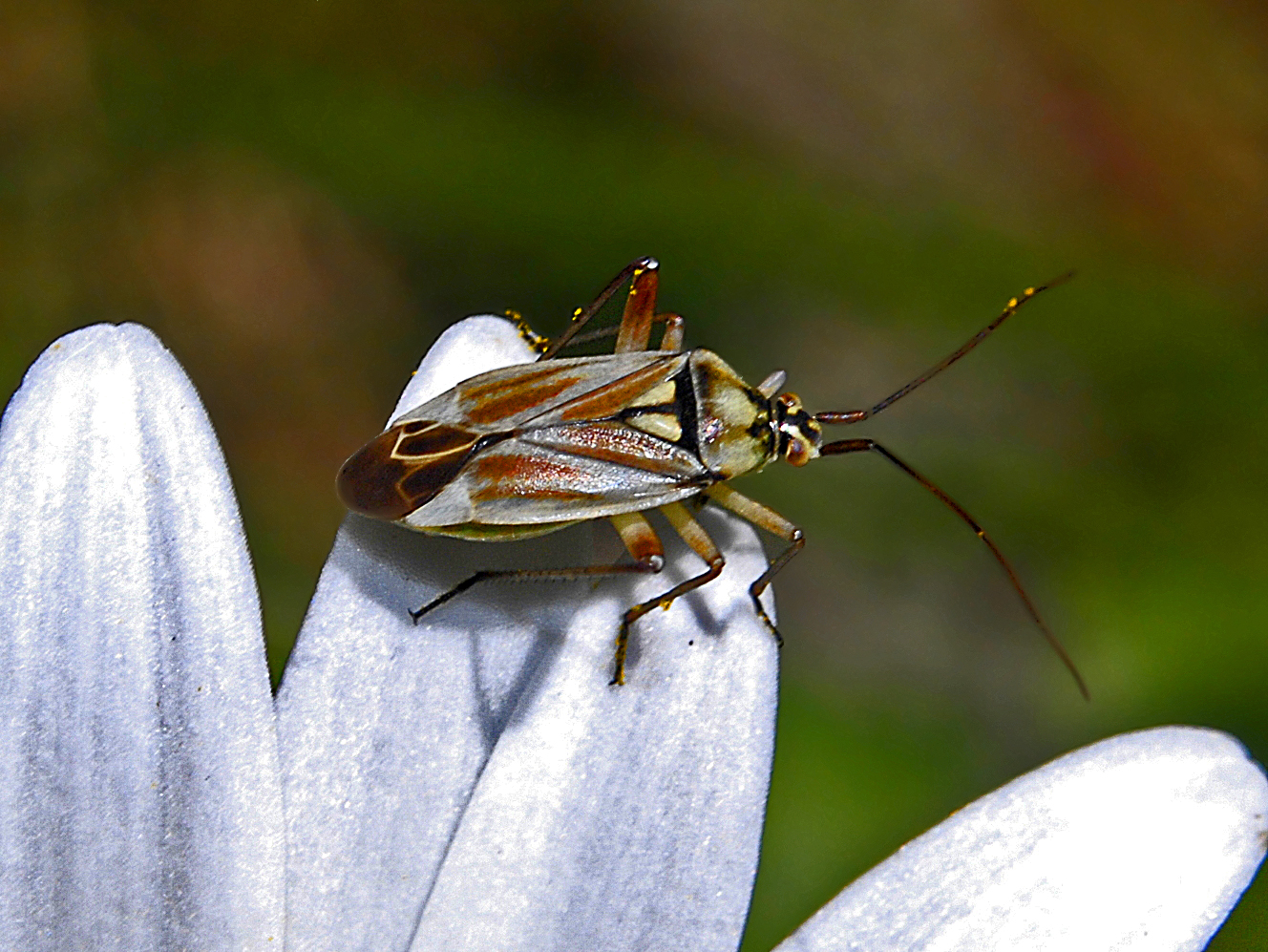 Calocoris roseomaculatus. Val di Rhemes, Aosta, Italy